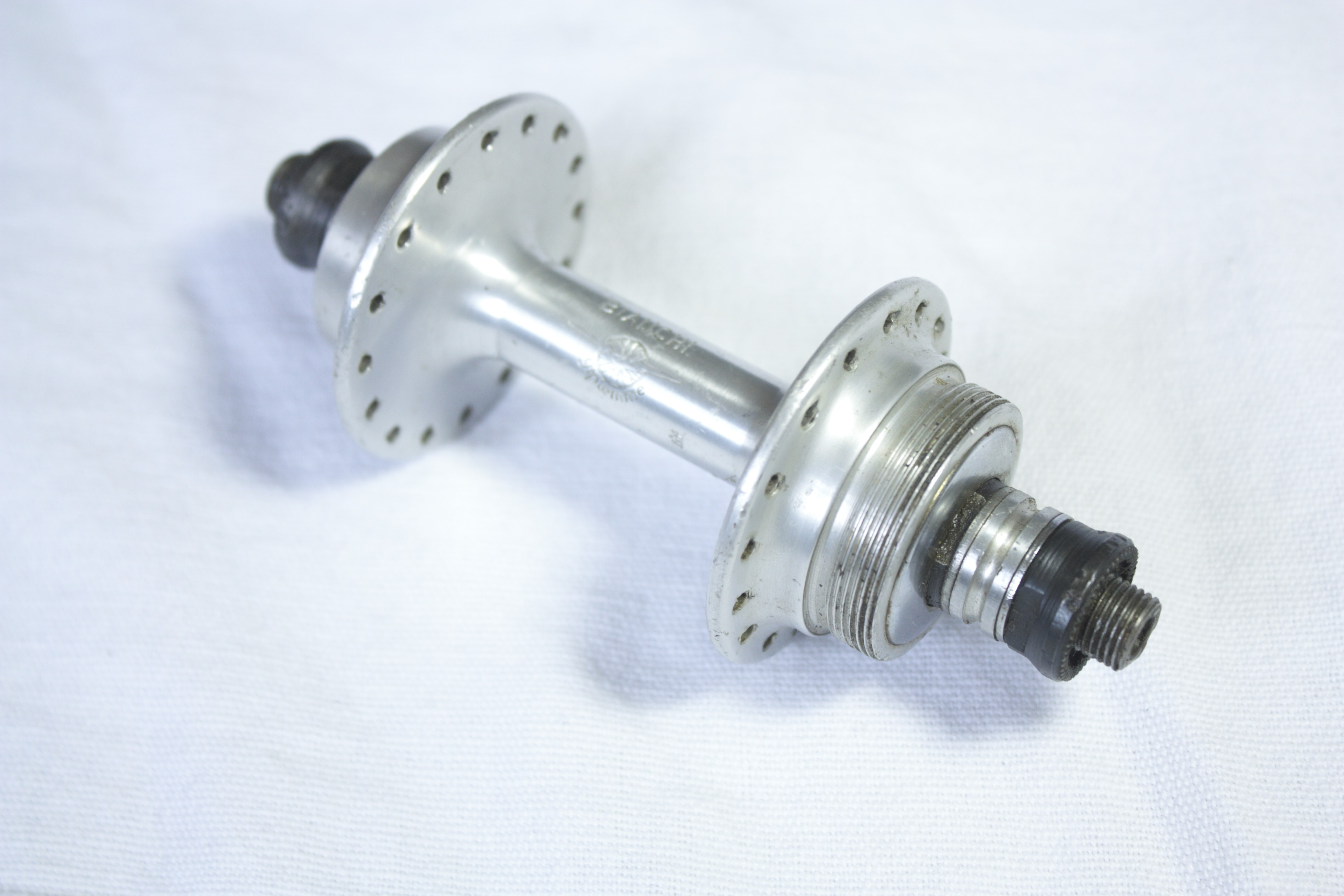 Gipiemme-Bianchie Hub